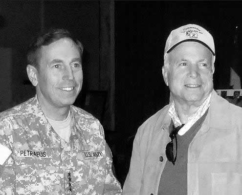 November 2007 photo of McCain in Baghdad with General David Petraeus.